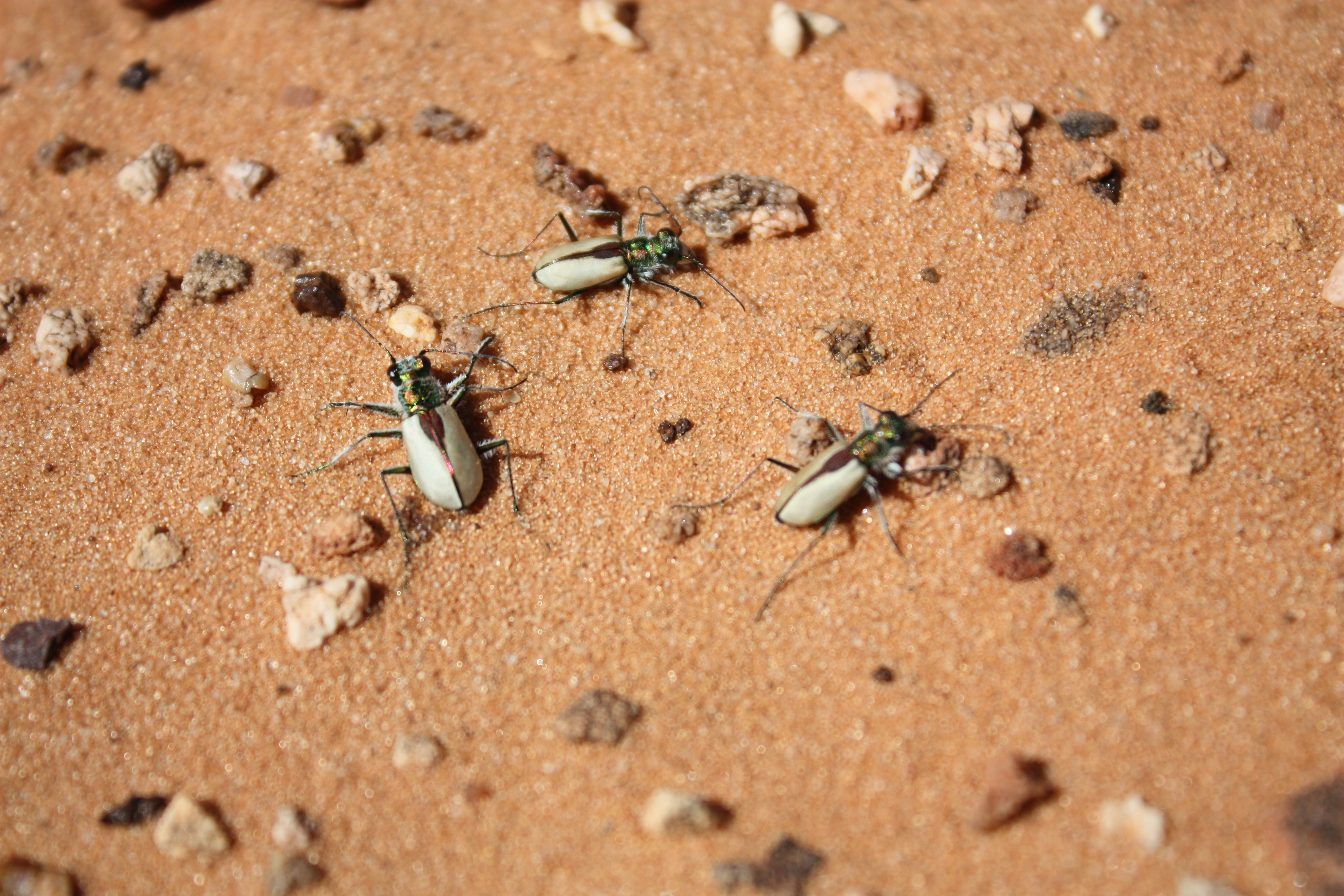 The Coral Pink Sand Dune Tiger Beetle occurs within Kane County, Utah. Credit: Photo by Mark Capone / USFWS